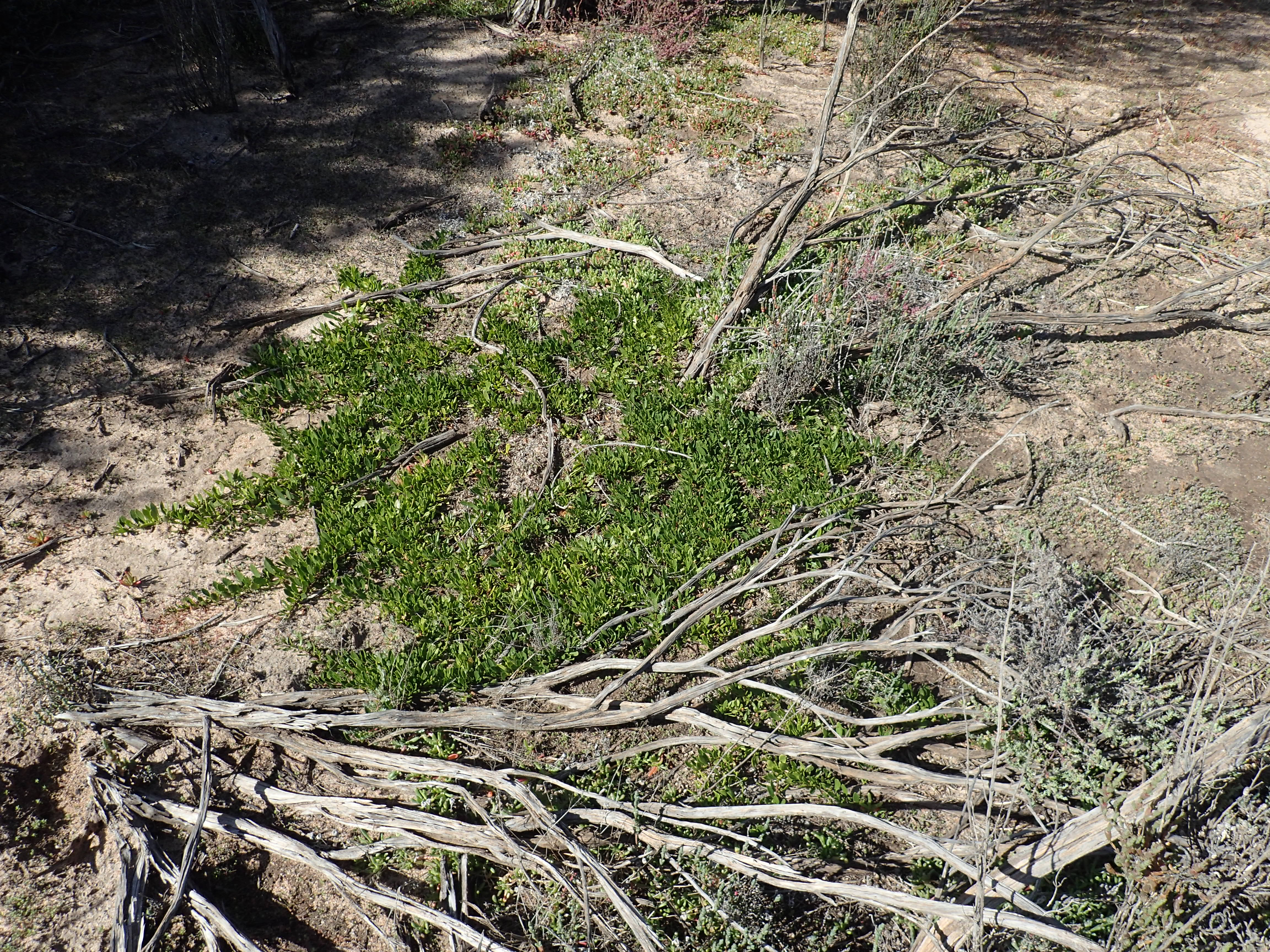 Eremophila serpens growing near Hewson Road in the Lake King Nature Reserve